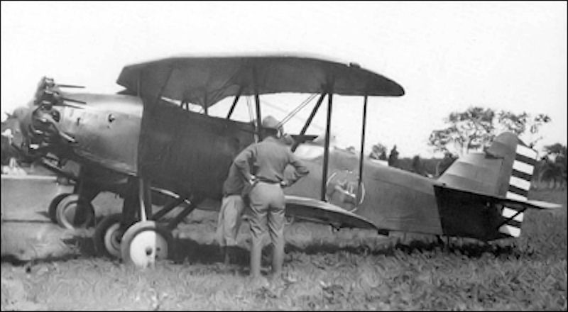 One of the Curtis XO-12's issued to the 118th Observation Squadron in the late 1920s. Its rotary engine, excellent for fighter aircraft for its power and ability to steeply climb to high altitudes, proved less satisfactory when used to power a plane which was intended to fly, slower and with less vibration so its manually operated camera could take sharp images. From The Air Guard, by Rene Francillon, Aerograph Press, 1983